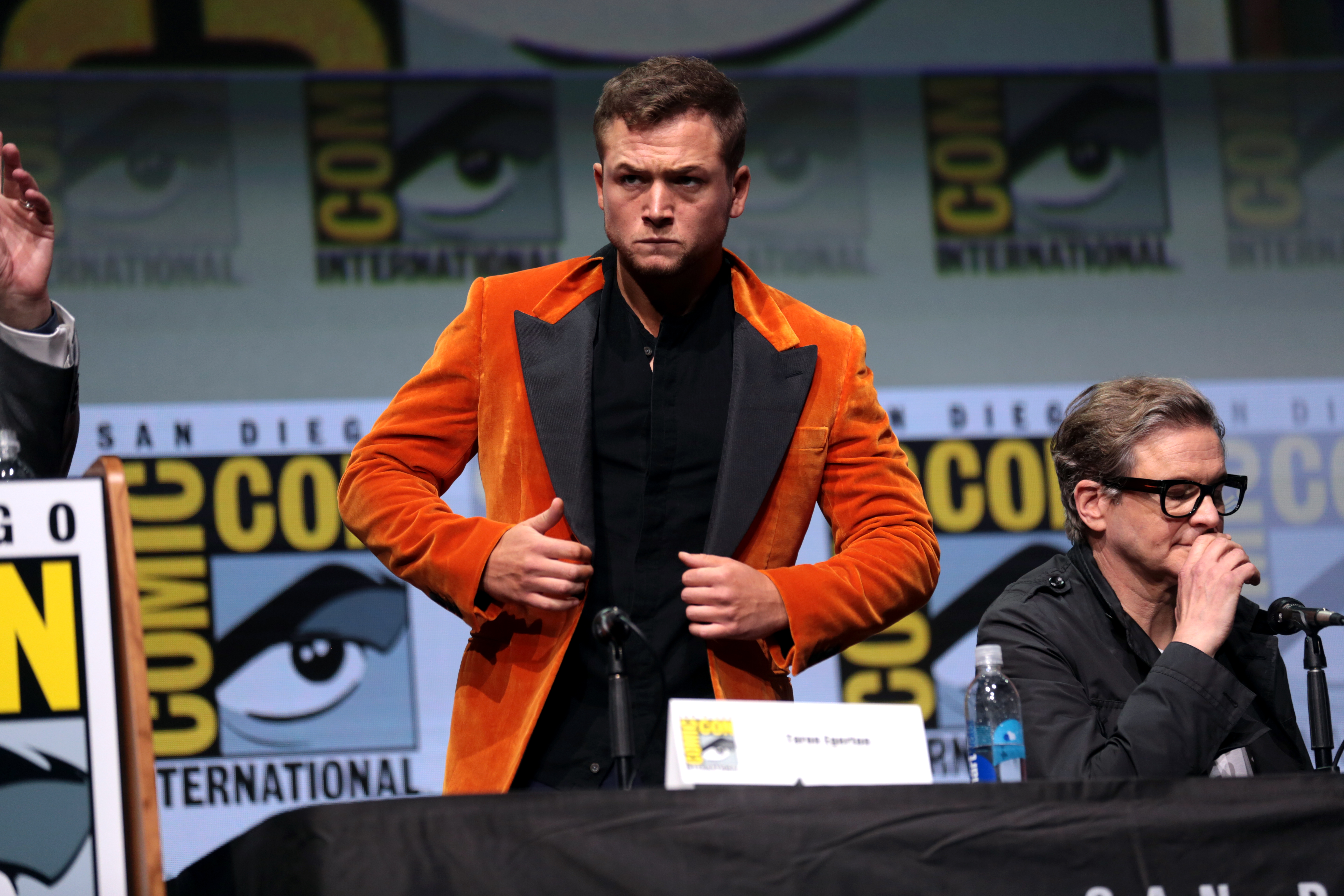 Taron Egerton and Colin Firth speaking at the 2017 San Diego Comic Con International, for "Kingsman: The Golden Circle", at the San Diego Convention Center in San Diego, California.